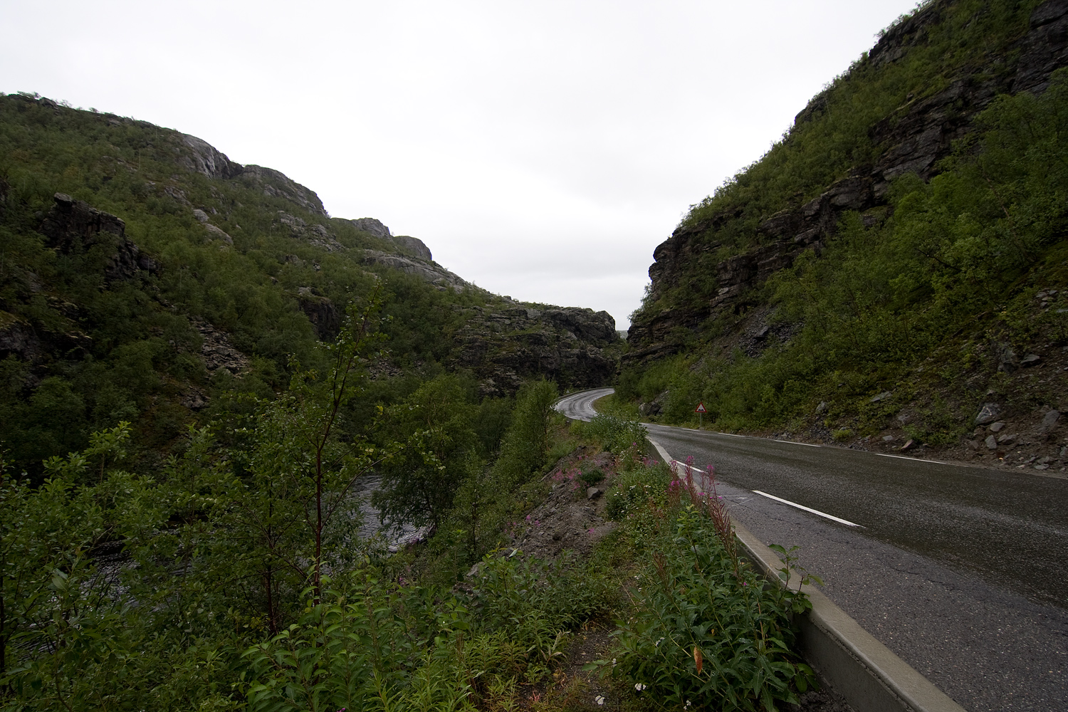 National road 93 in Eibydalen valley in Alta, Norway